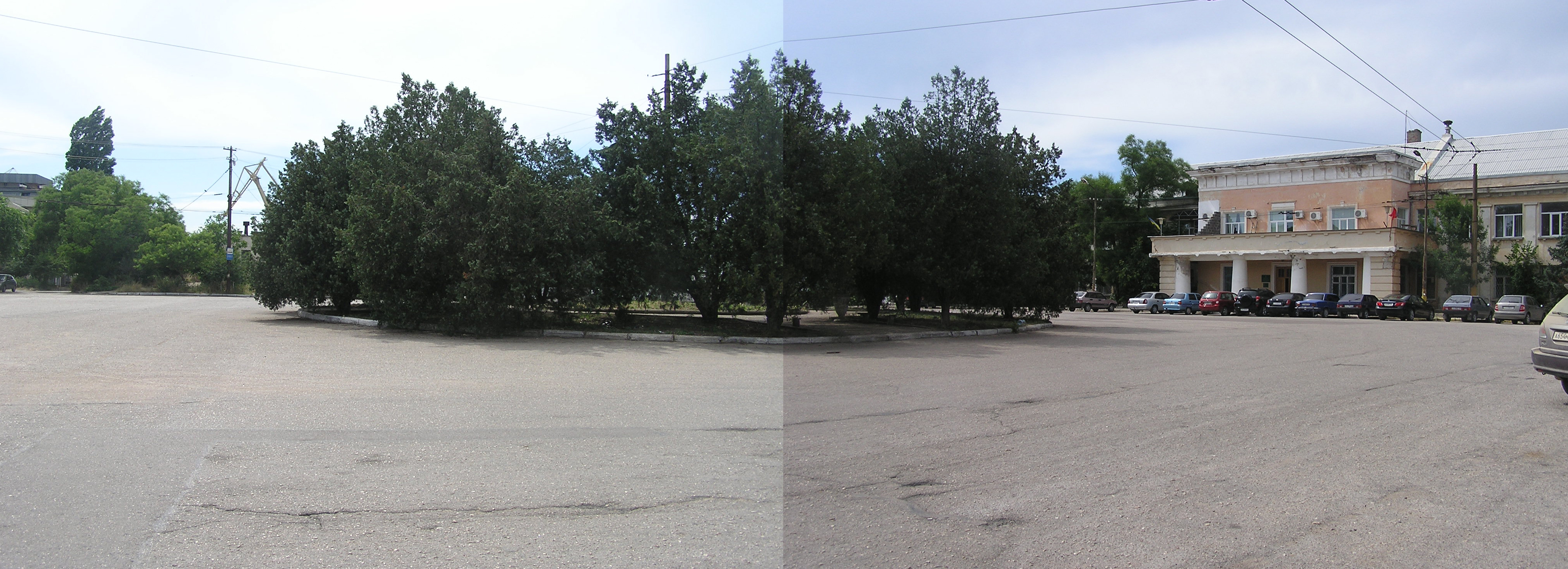 Lastova square in Sevastopol. Ukraine